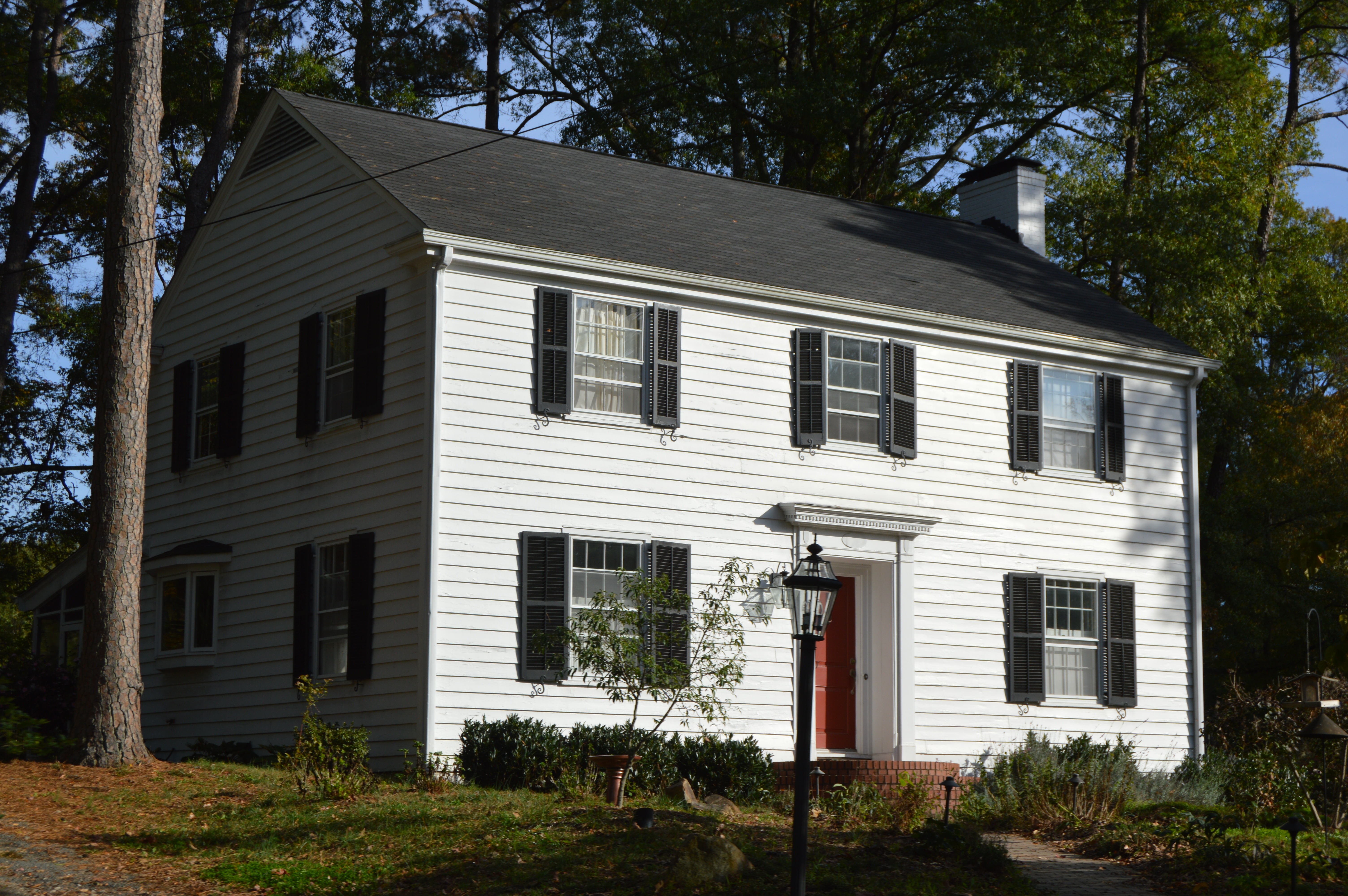 Front of the William B. Rowland, Jr., House, located at 1227 Vickers Avenue in Durham, North Carolina, United States. This house and its neighbors are part of the Morehead Hill Historic District, a historic district that is listed on the National Register of Historic Places.